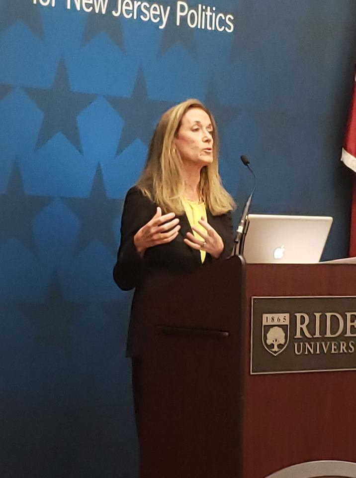 Regina Egea speaks at Rider University's Rebovich Institute for New Jersey Politics